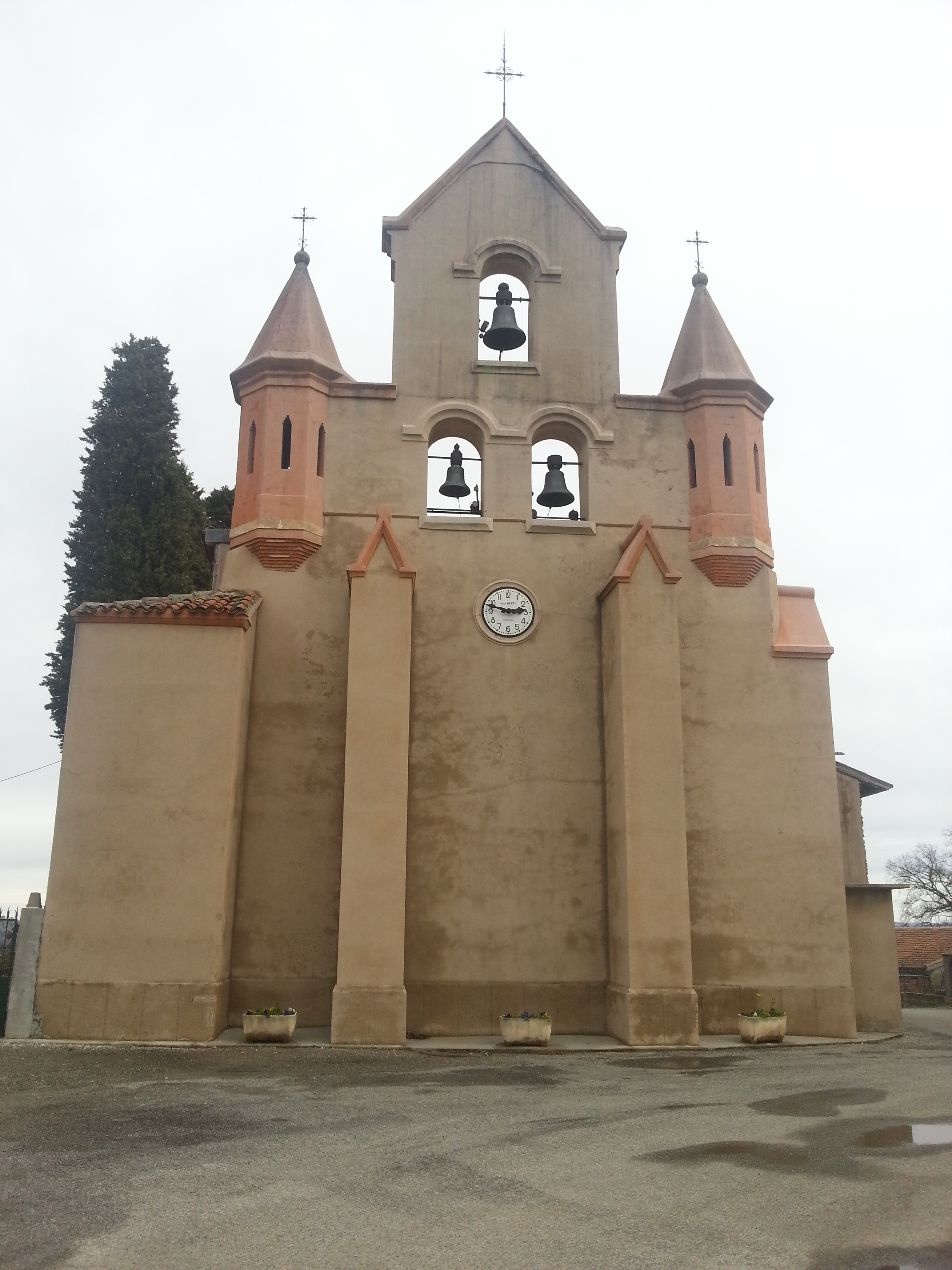 Bell-gable of the church of Madière, Ariège, France.